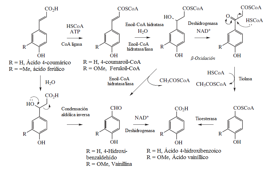 Phenylpropanoids degradation scheme